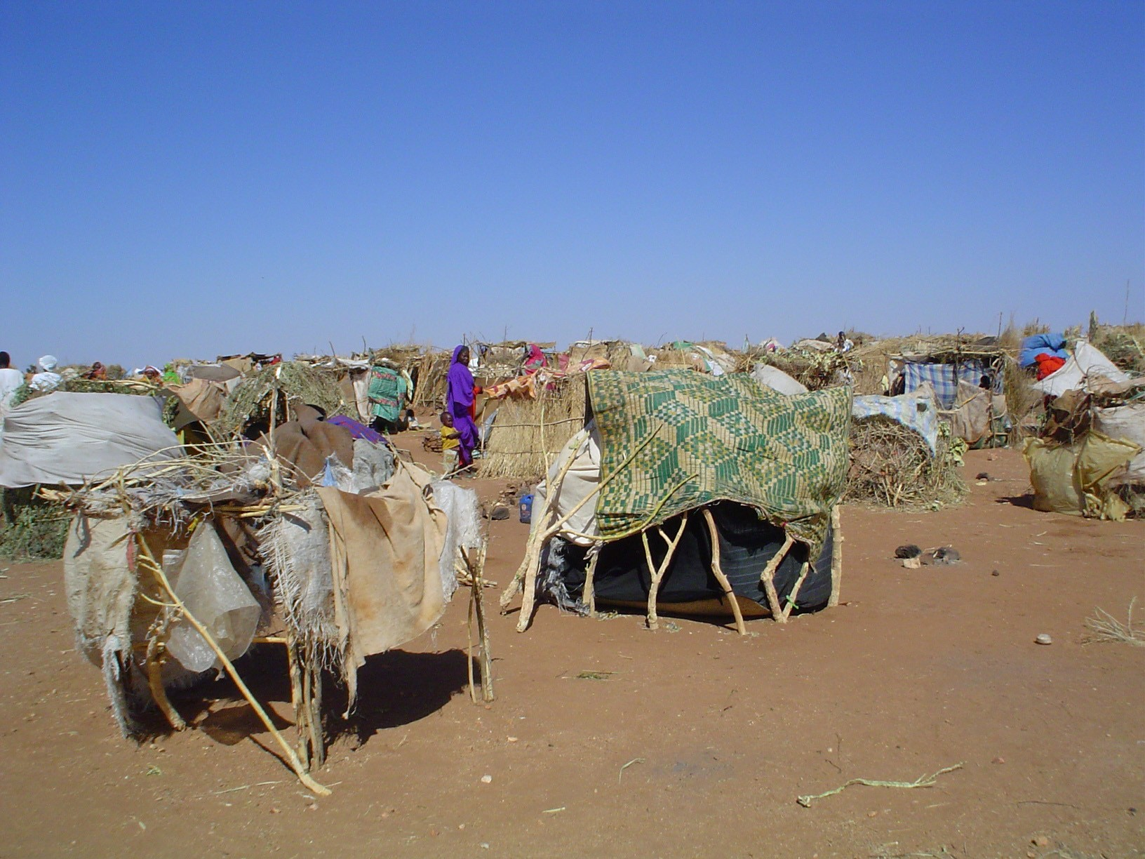 Picture of IDP camp in Sudan resulting from the Darfur conflict. Original captions states: "Internally Displaced Persons (IDPs) use sticks and scraps of plastic to construct makeshift shelters at Intifada transit camp near Nyala in South Darfur. These shelters are characteristic of many IDP settlements in Darfur."